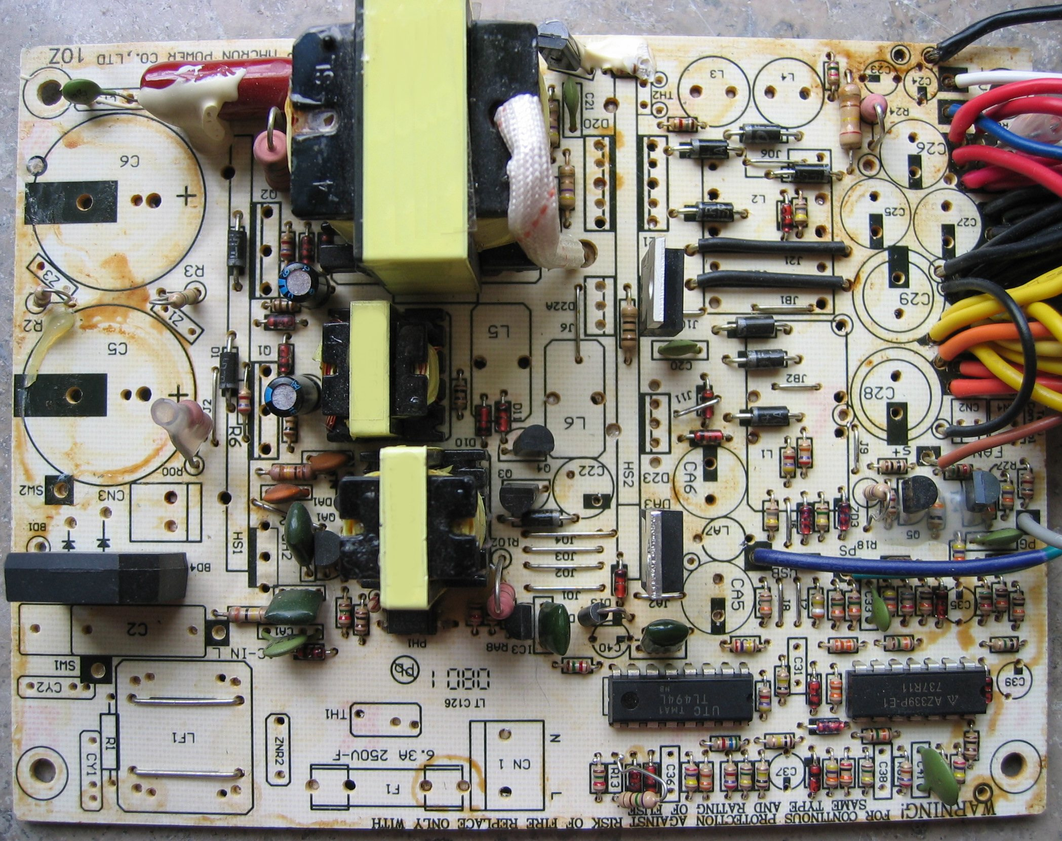 ATX Computer Switching Power Supply PCB partially placed parts